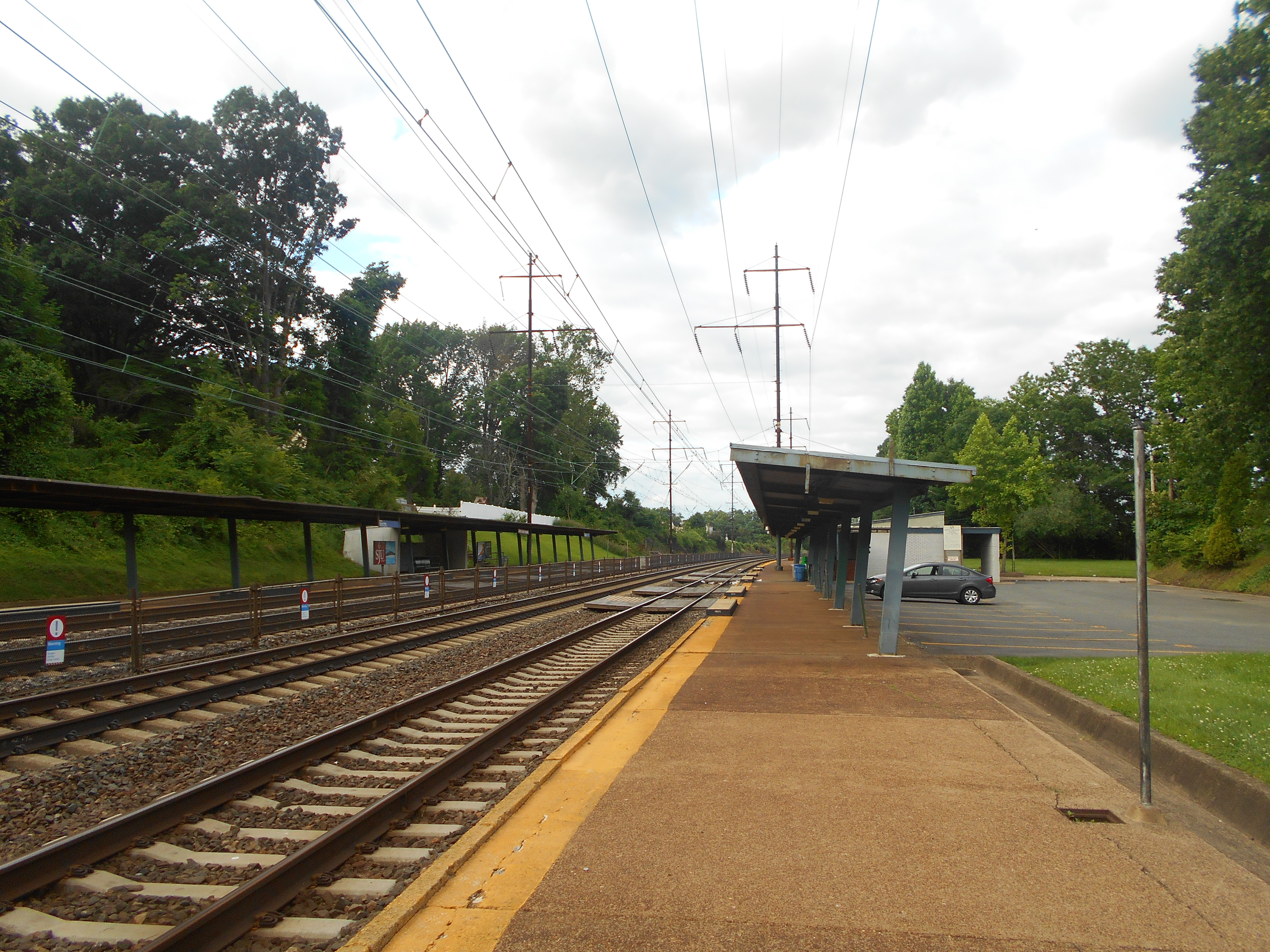 The Curtis Park SEPTA Regional Rail station in Curtis Park, Pennsylvania.